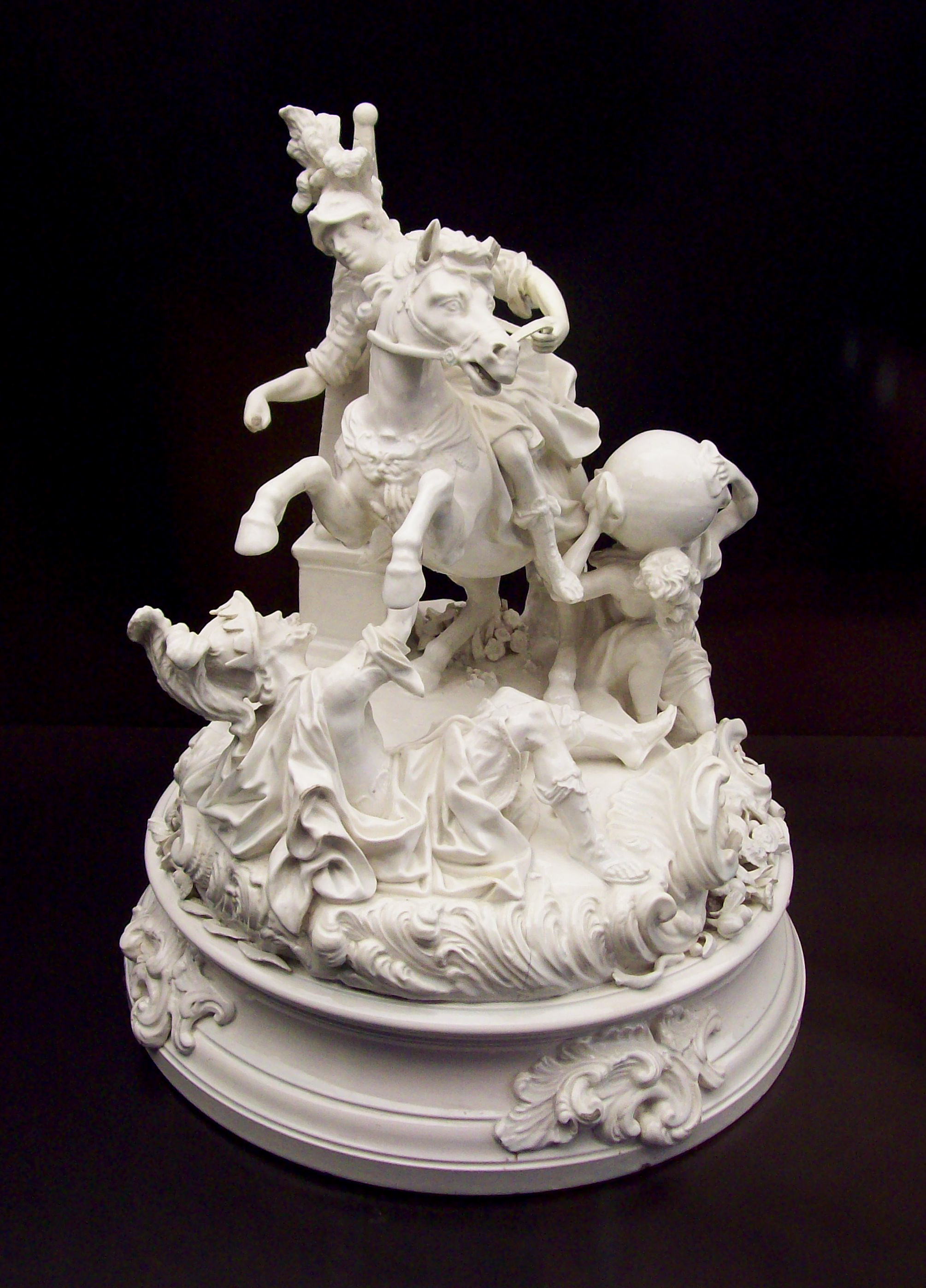 Sculptural group representing Alexander the Great riding Bucephalus and fighting an enemy king.